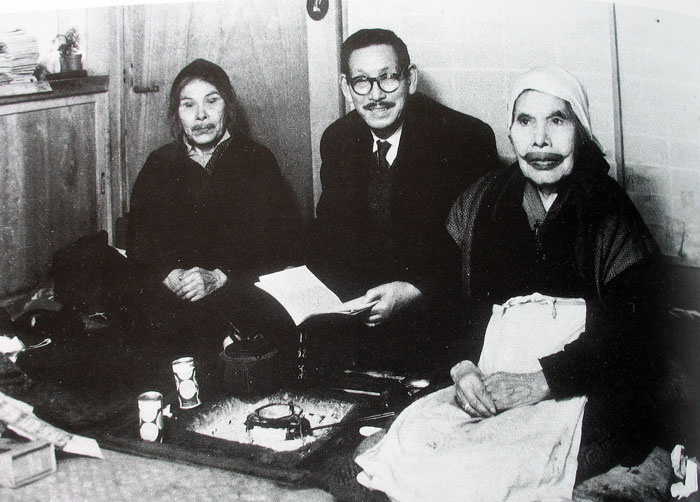 A picture of Imekanu (left), Kindaichi Kyōsuke, and Imekanu's sister Nami Kanai